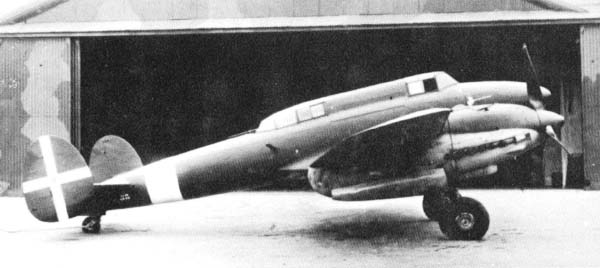 Italian IMAM Ro.58 fighter prototype